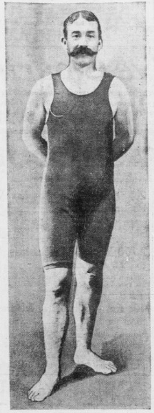 Photograph of American swimmer James L. McCusker, which appeared in July 31, 1904 edition of The Washington Times